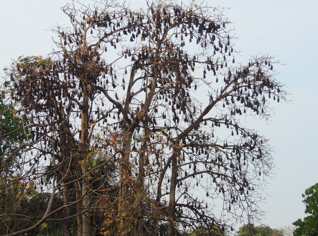 Pteropus giganteus colony, Goa, India